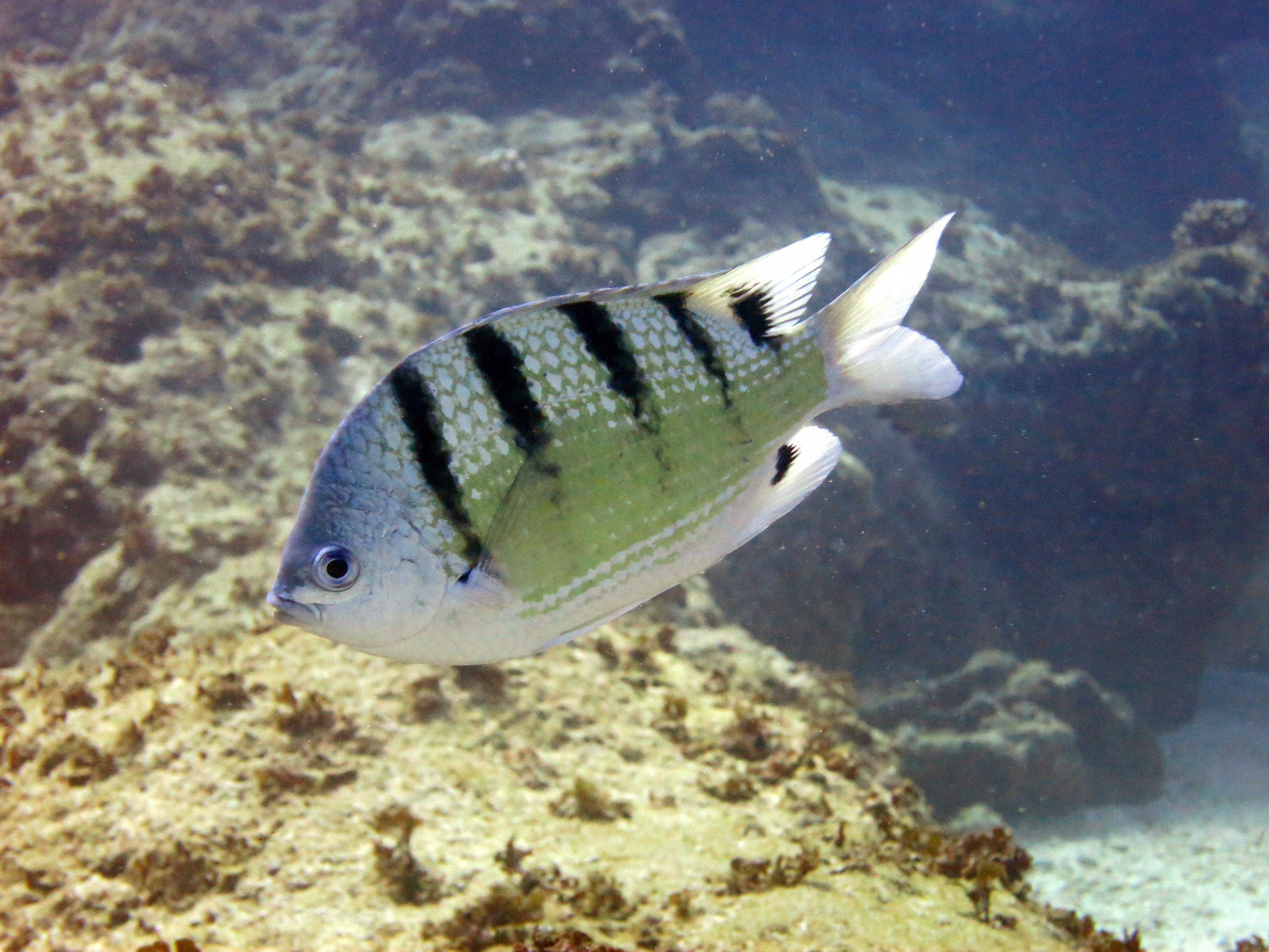 Hawaiian sergeant (Abufdefduf abdominalis) Image ID: corl0096, NOAA's Coral Kingdom Collection Location: Hawaii, NWHI Photo Date: 2014 Photographer: Kevin Lino NOAA/NMFS/PIFSC/ESD